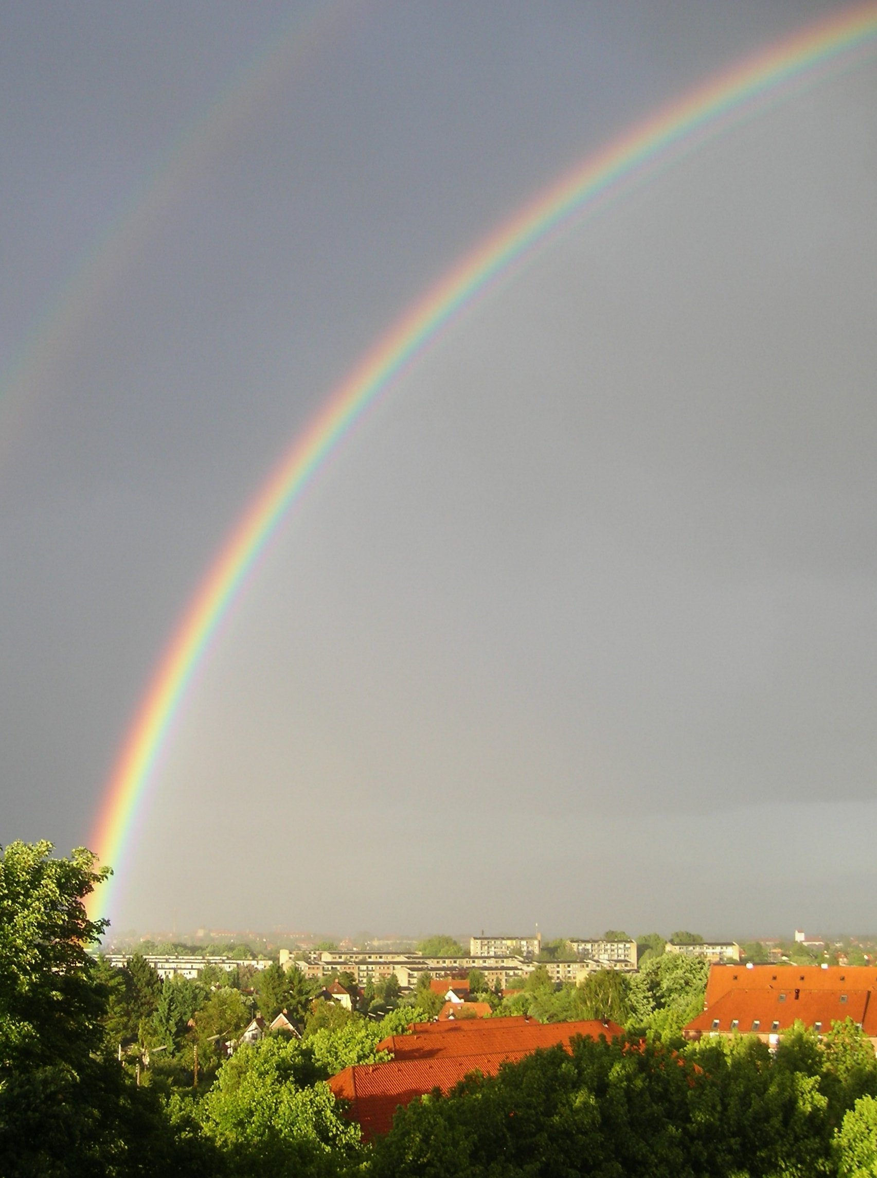 View from Høje Søborg Øst